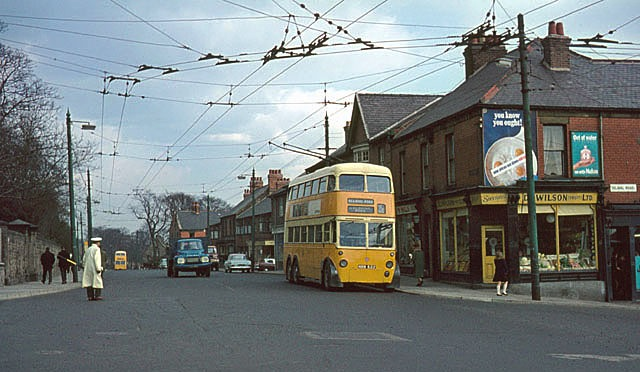 British Trolleybuses - Newcastle upon Tyne. A trolleybus arrives at was then the terminus of the Elswick Road service at Benwell. Earlier, services continued beyond this point to Denton. This is the junction of Benwell Lane with Delaval Road to the right. The trolleybus will pull forward across the junction and then reverse into Delaval Road before pulling on to the departure stop (behind the lollipop man). The idea of making this sort of manoeuvre in this day and age would be unthinkable, but at that stage it was still a common practice. The presence of the lollipop man shows that this would be school finishing time, but there is nothing like the amount of traffic that there would be today. Postscript: even in 2009, the traffic seems to be quite light; the astonishing thing is how little the scene has changed 1236701 For a slide show of British Trolleybuses in the late '60s